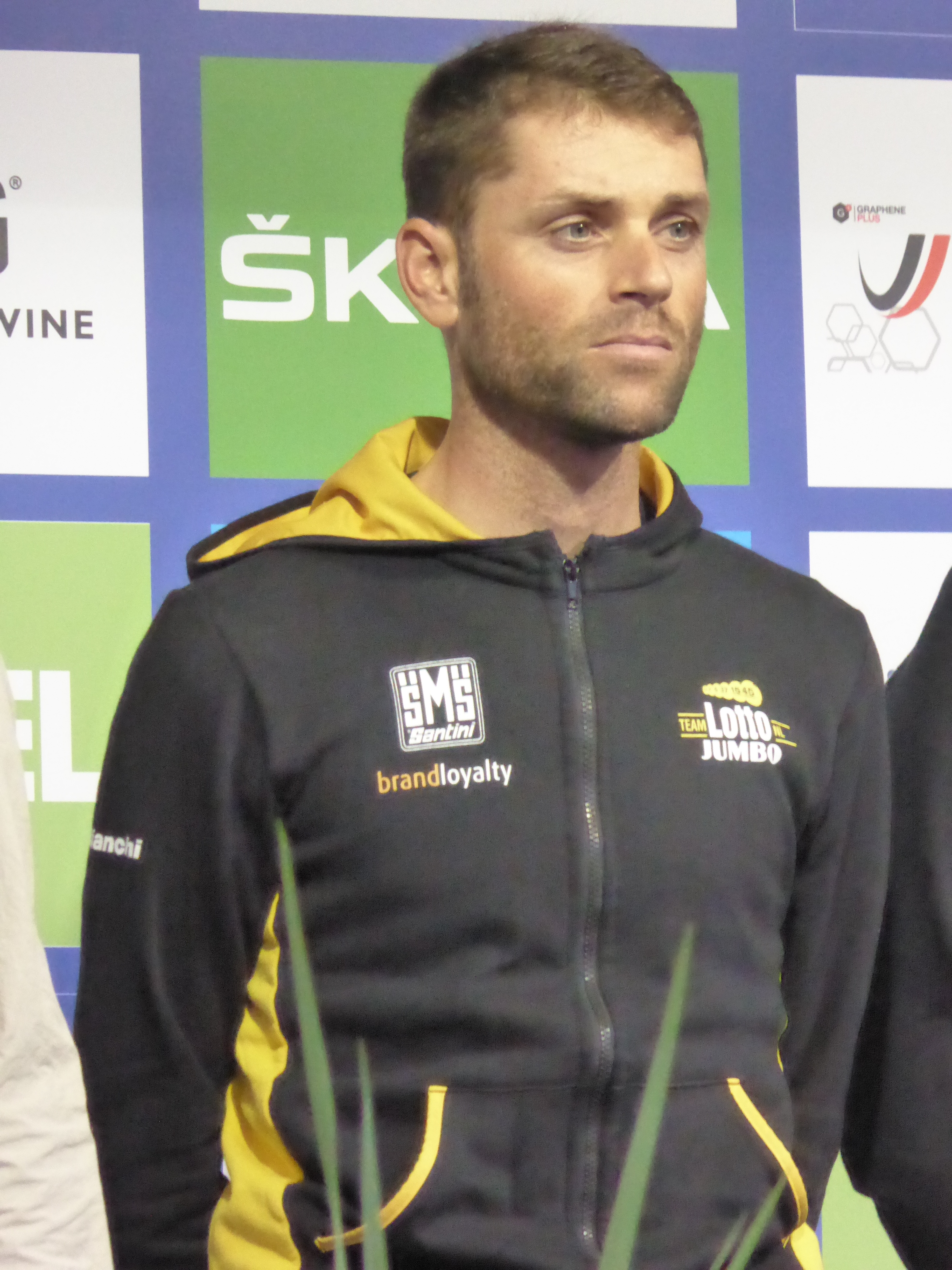 Paul Martens (Team LottoNL-Jumbo), pictured at the 2016 Tour of Britain team presentation in Glasgow on 3 September 2016.